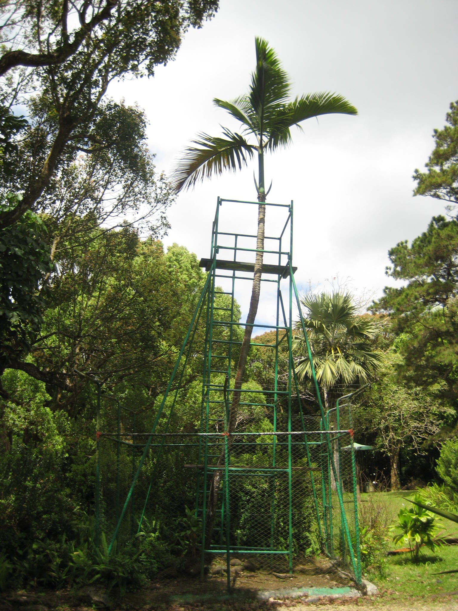 endangered species Hyophorbe amaricaulis at Curepipe botanical garden, Mauritius.